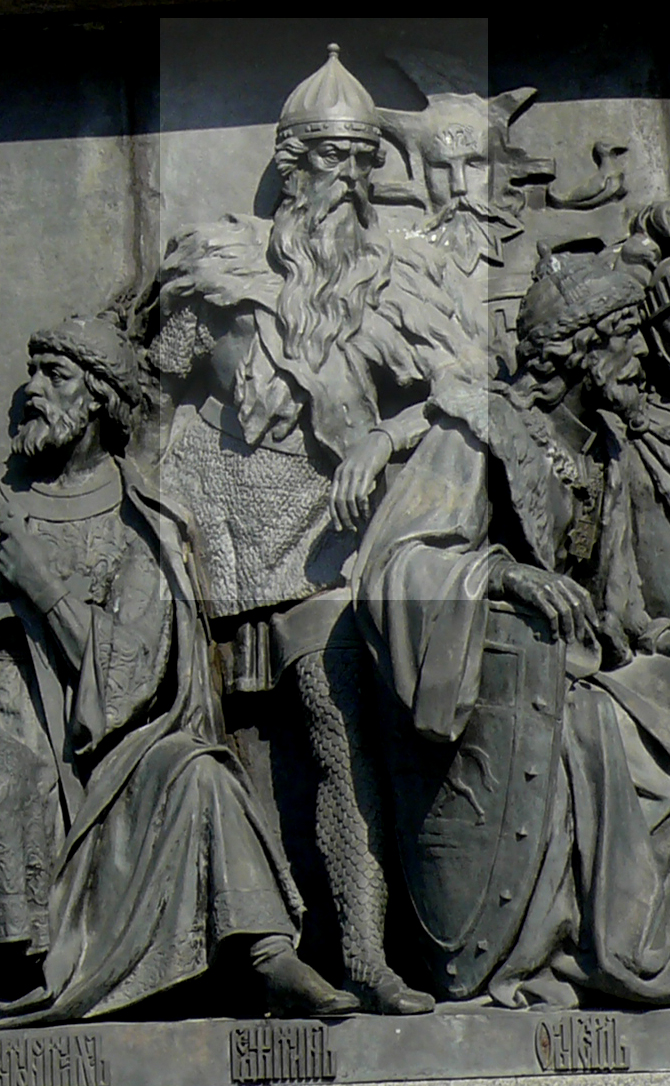 Prince Gediminas on the Monument «Millennium of Russia» in Veliky Novgorod